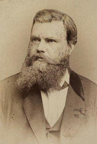 Karl Mauch's portrait